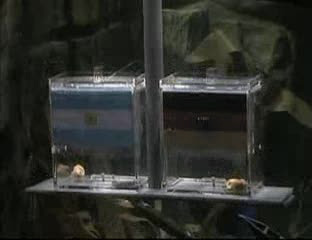 Boxes marked with the flags of Argentina and Germany for Paul the Octopus to pick in the 2010 World Cup quarter-final match. Paul correctly picked Germany. Screenshot taken from VOA news video.